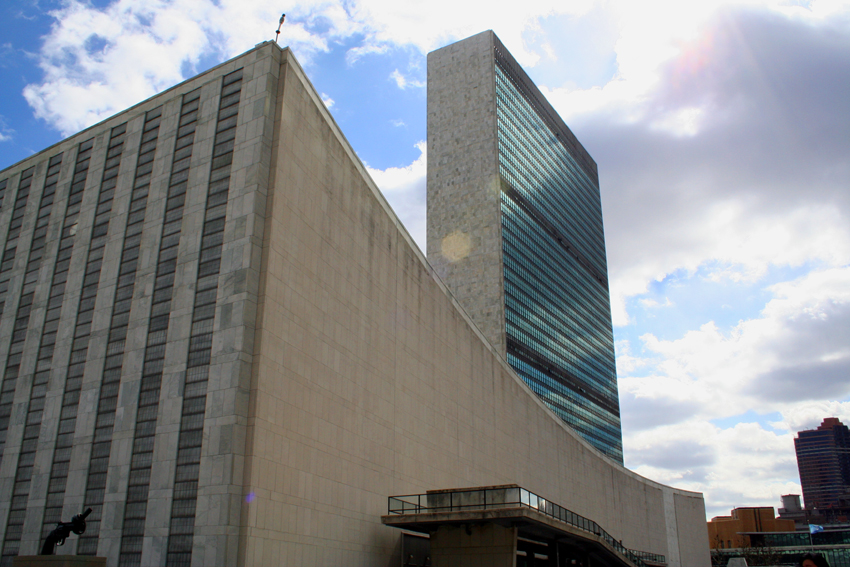 View of the UN headquarters in New York.